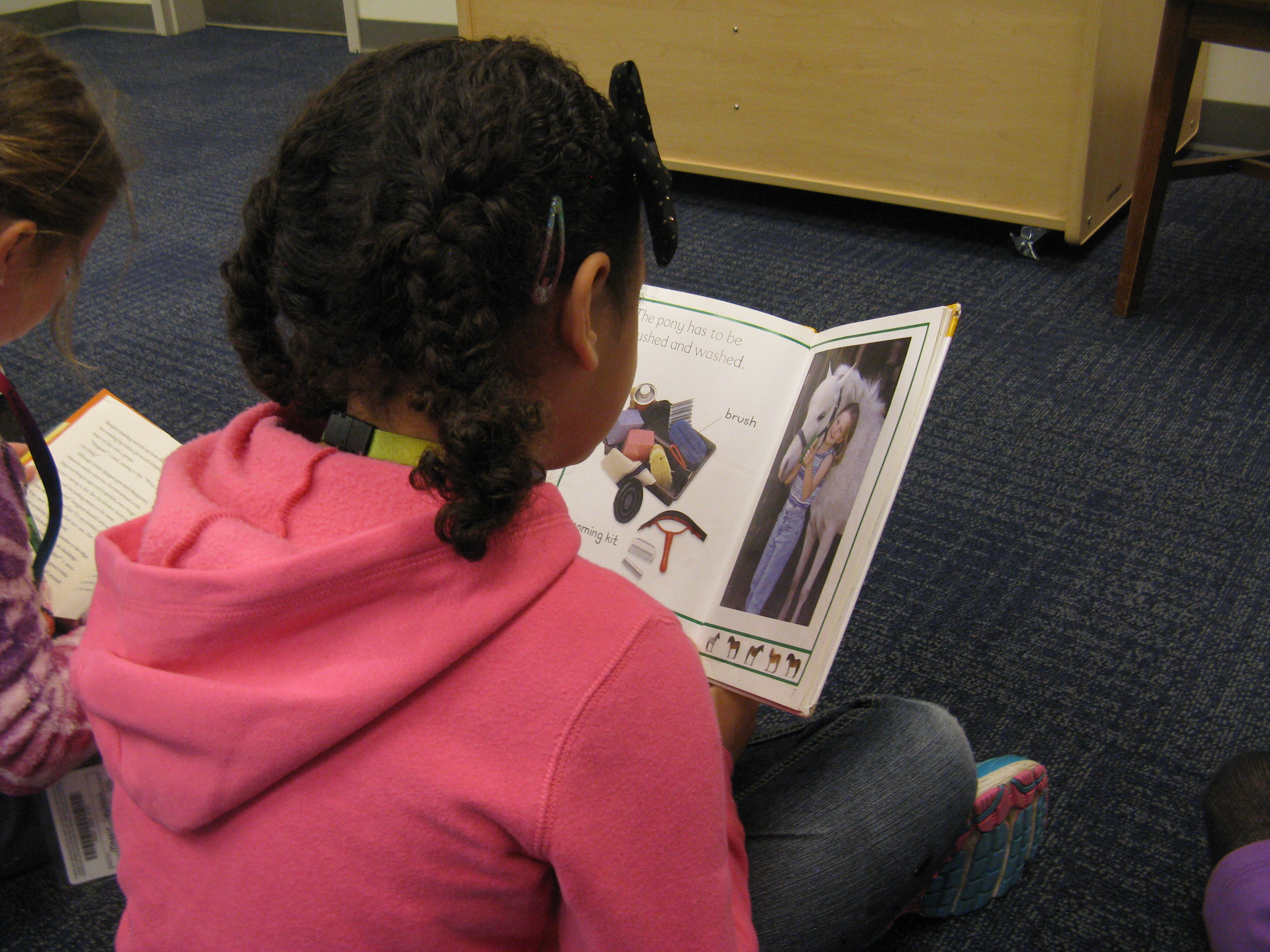 National representatives from Family Place Libraries visit KPL to celebrate the library's official designation as a Family Place Library.